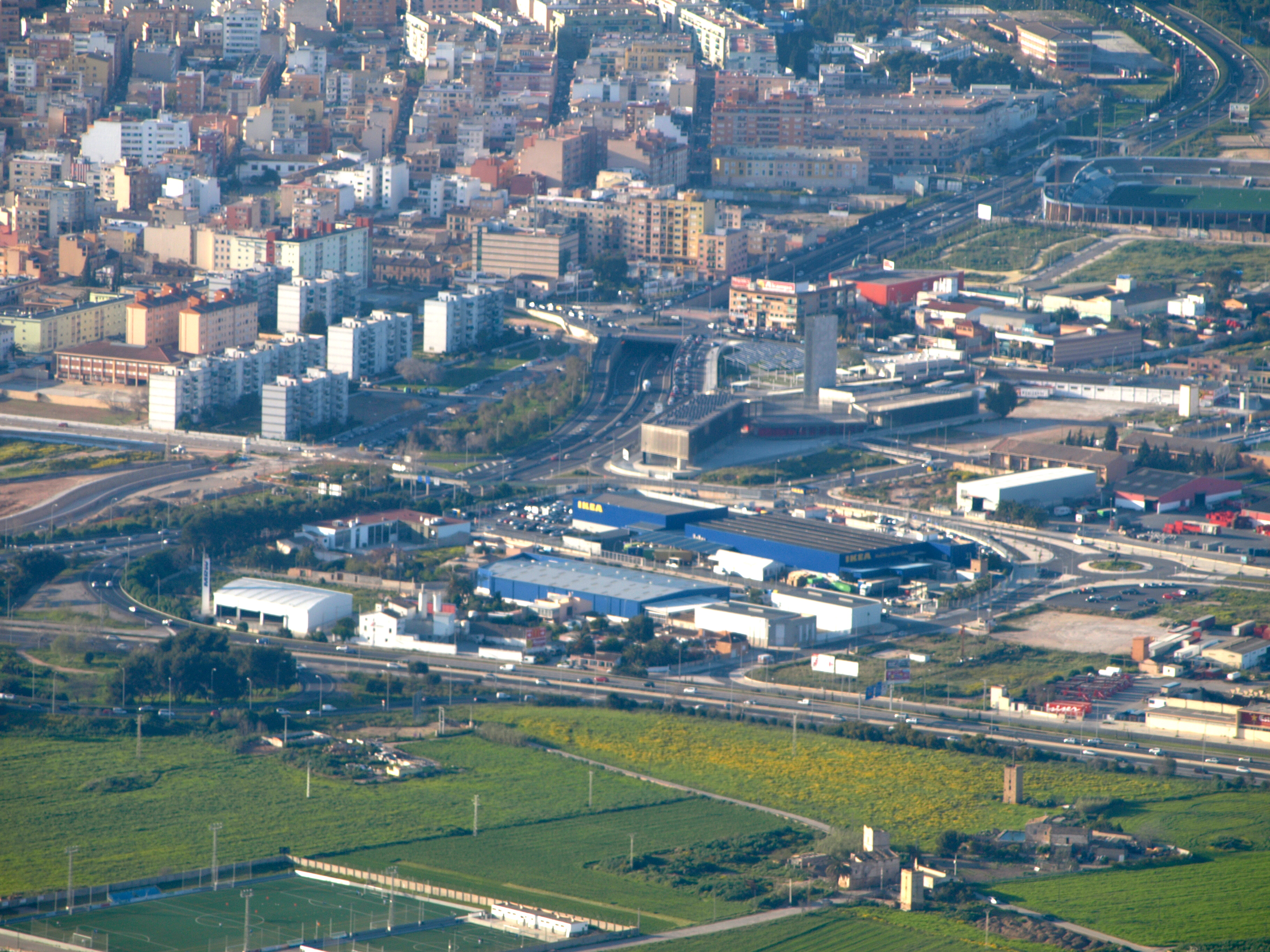 La Soledat and Son Malferit aerial view.